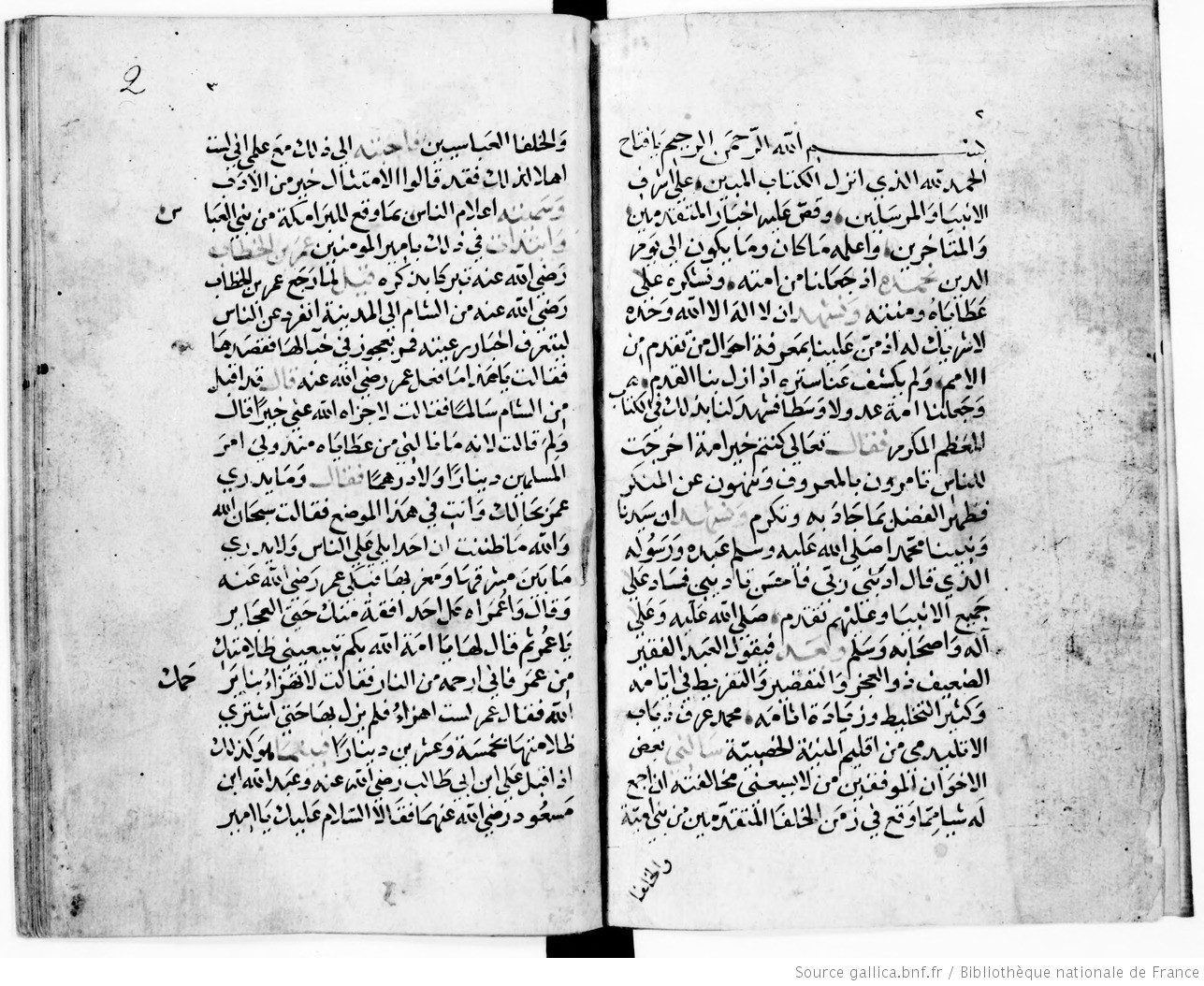 MS of . Iʿlam al-nas bima wakaʿa lil-Baramika min Bani ʿAbbas, Arabe 5246 BnF, Paris